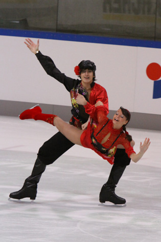 Ekaterina PUSHKASH and Jonathan GUERREIRO (RUS) at the 2009-2010 JGP Pokal der Blauen Schwerter. Original dance - Folk, Country.